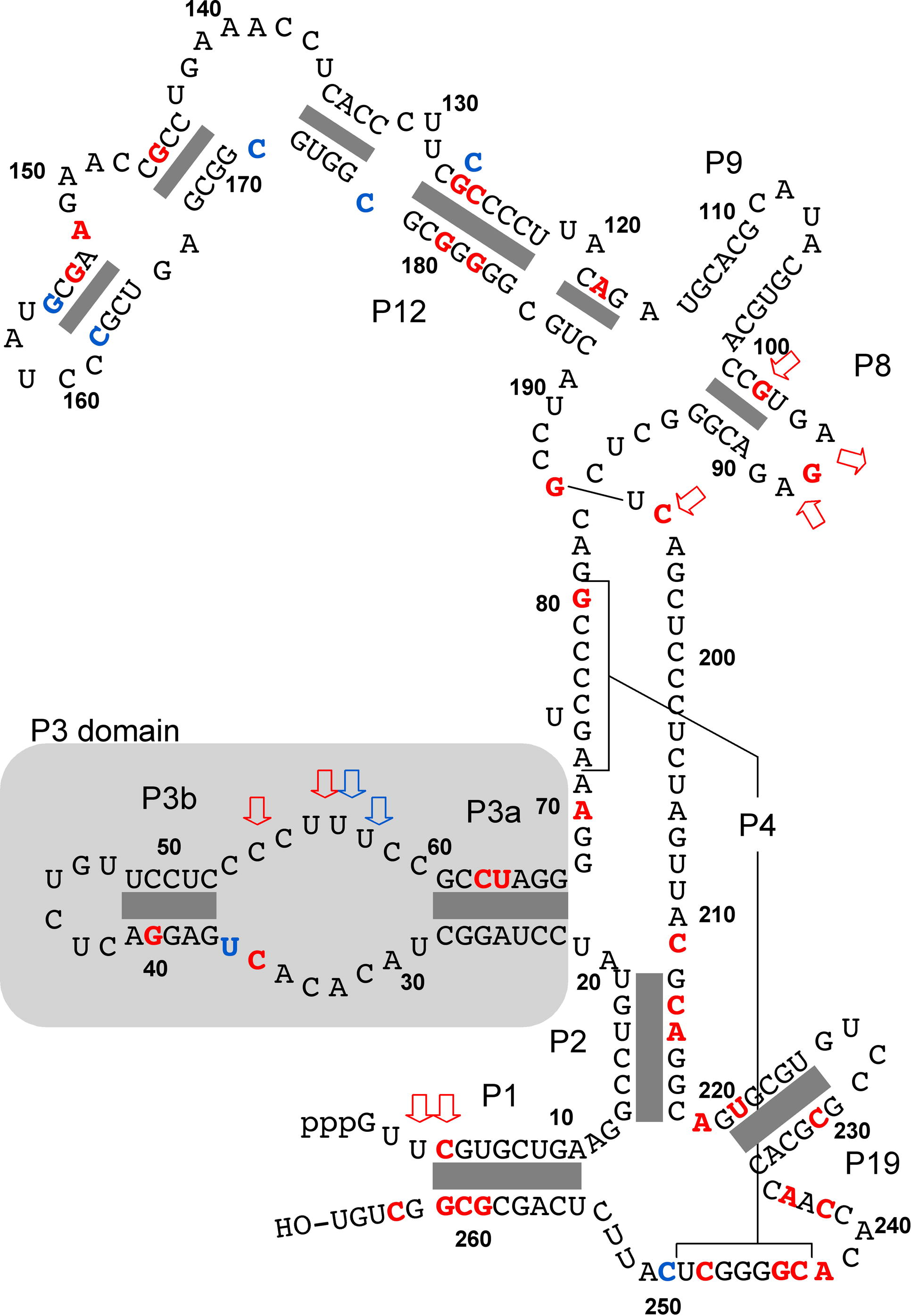 The RNA molecule of the human RNase MRP complex is shown according to the model of Welting et al. [29]. Nucleotides affected by mutations (single nucleotide changes) are in red; polymorphisms and rare variants are in blue. Insertion/duplication/deletions are indicated as red (mutations) or blue (putative polymorphisms) arrows. Regions of base-pairing are indicated as gray boxes. The P3 domain (nucleotides 22–66) is shaded.